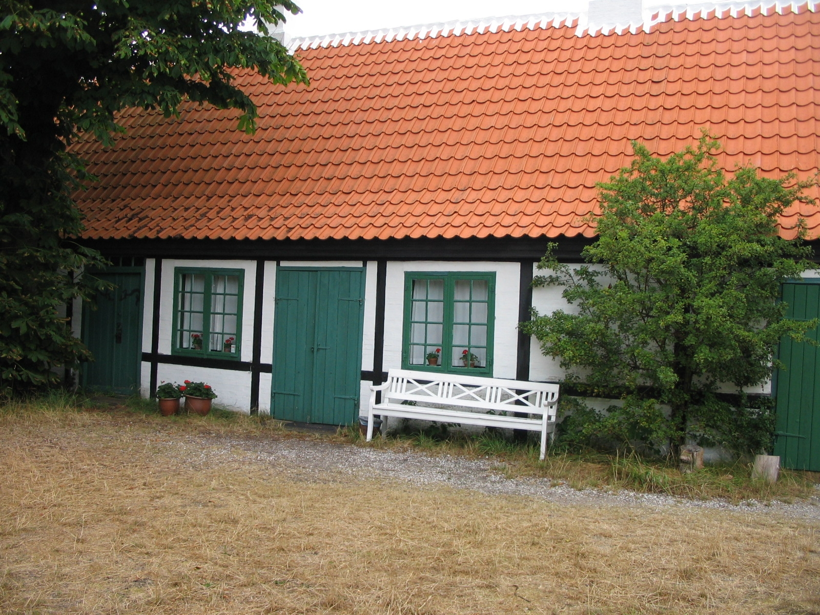 House of Holger Frachmann, Villa Pax, Skagen, Denmark